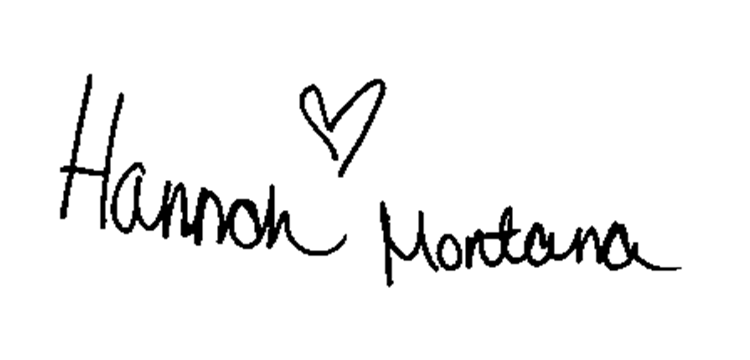 Hannah Montana signature